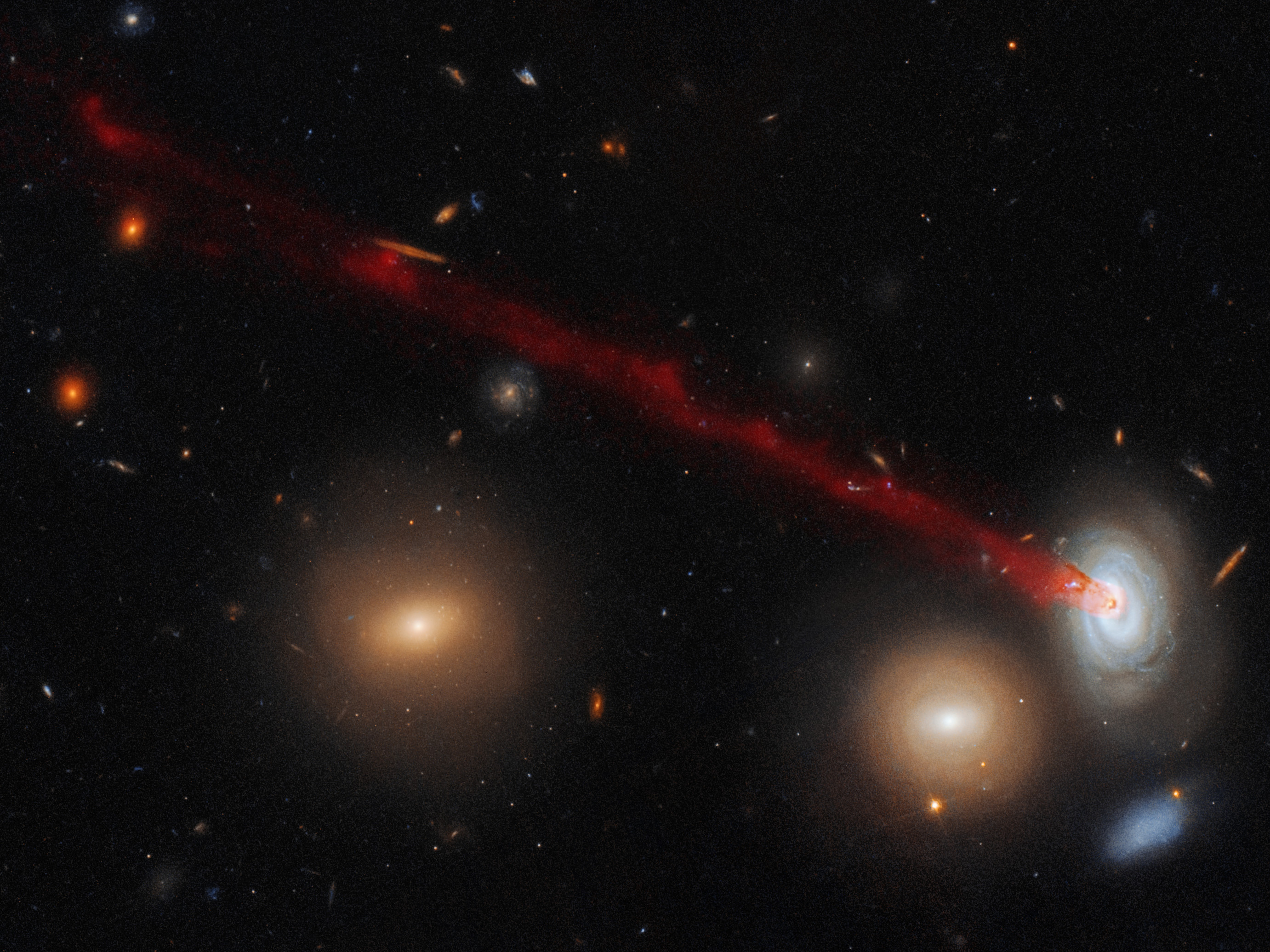 This striking image combines data gathered with the Advanced Camera for Surveys, installed on the NASA/ESA Hubble Space Telescope and data from the Subaru Telescope in Hawaii. It shows just a part of the spectacular tail emerging from a spiral galaxy nicknamed D100. Tails such as these are created by a process known as ram-pressure stripping. Despite appearances, the space between galaxies in a cluster is far from empty; it is actually filled with superheated gas and plasma, which drags and pulls at galaxies as they move through it, a little like the resistance one experiences when wading through deep water. This can be strong enough to tear galaxies apart, and often results in objects with peculiar, bizarre shapes and features — as seen here. D100’s eye-catching tail of gas, which stretches far beyond this image to the left, is a particularly striking example of this phenomenon. The galaxy is a member of the huge Coma cluster. The pressure from the cluster’s hot constituent plasma (known as the intracluster medium) has stripped gas from D100 and torn it away from the galaxy’s main body, and drawing it out into the plume pictured here. Densely populated clusters such as Coma are home to thousands of galaxies. They are thus the perfect laboratories in which to study the intriguing phenomenon of ram-pressure stripping, which, as well as producing beautiful images such as this, can have a profound effect on how galaxies evolve and form new generations of stars.